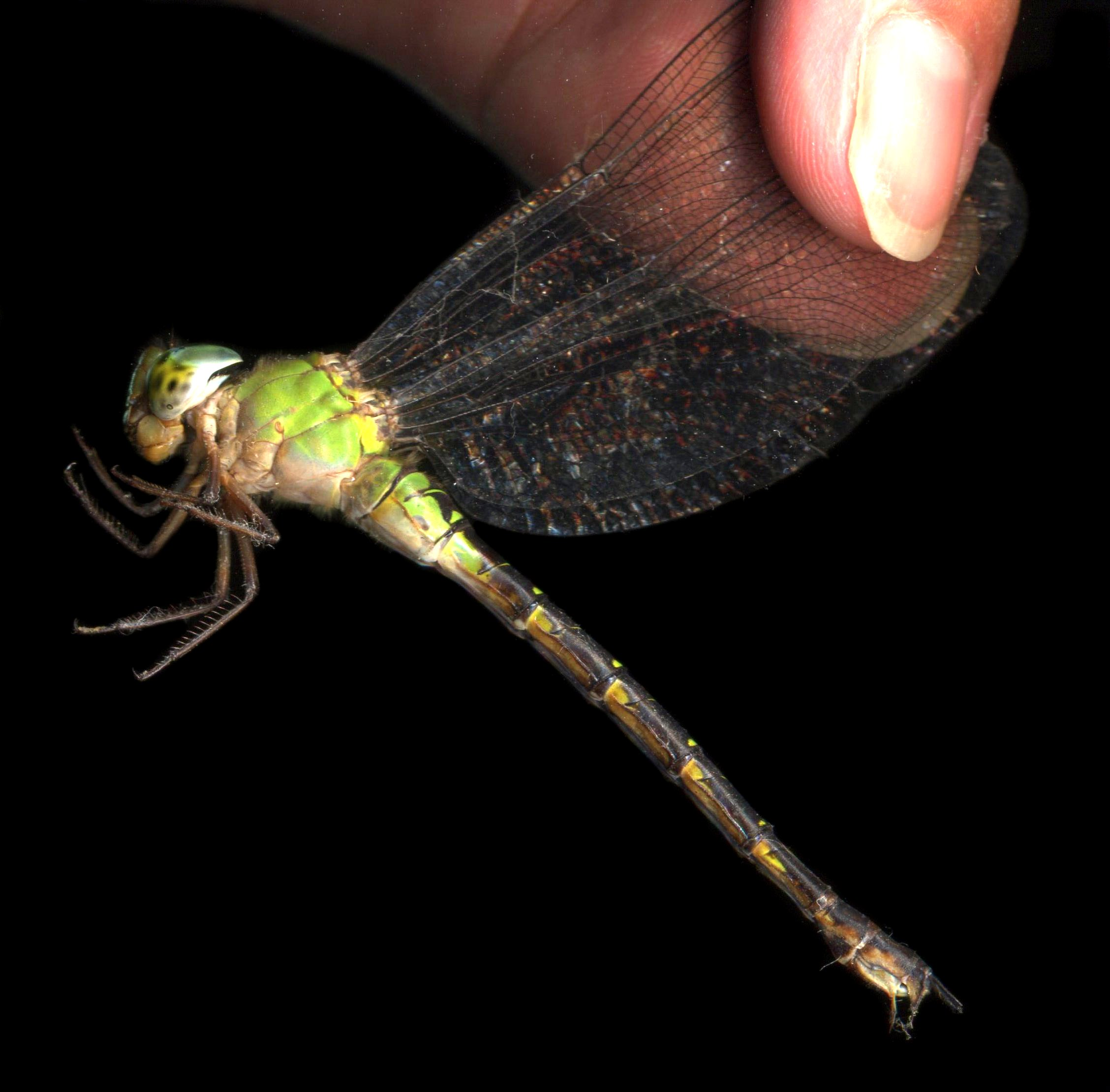 Anax parthenope